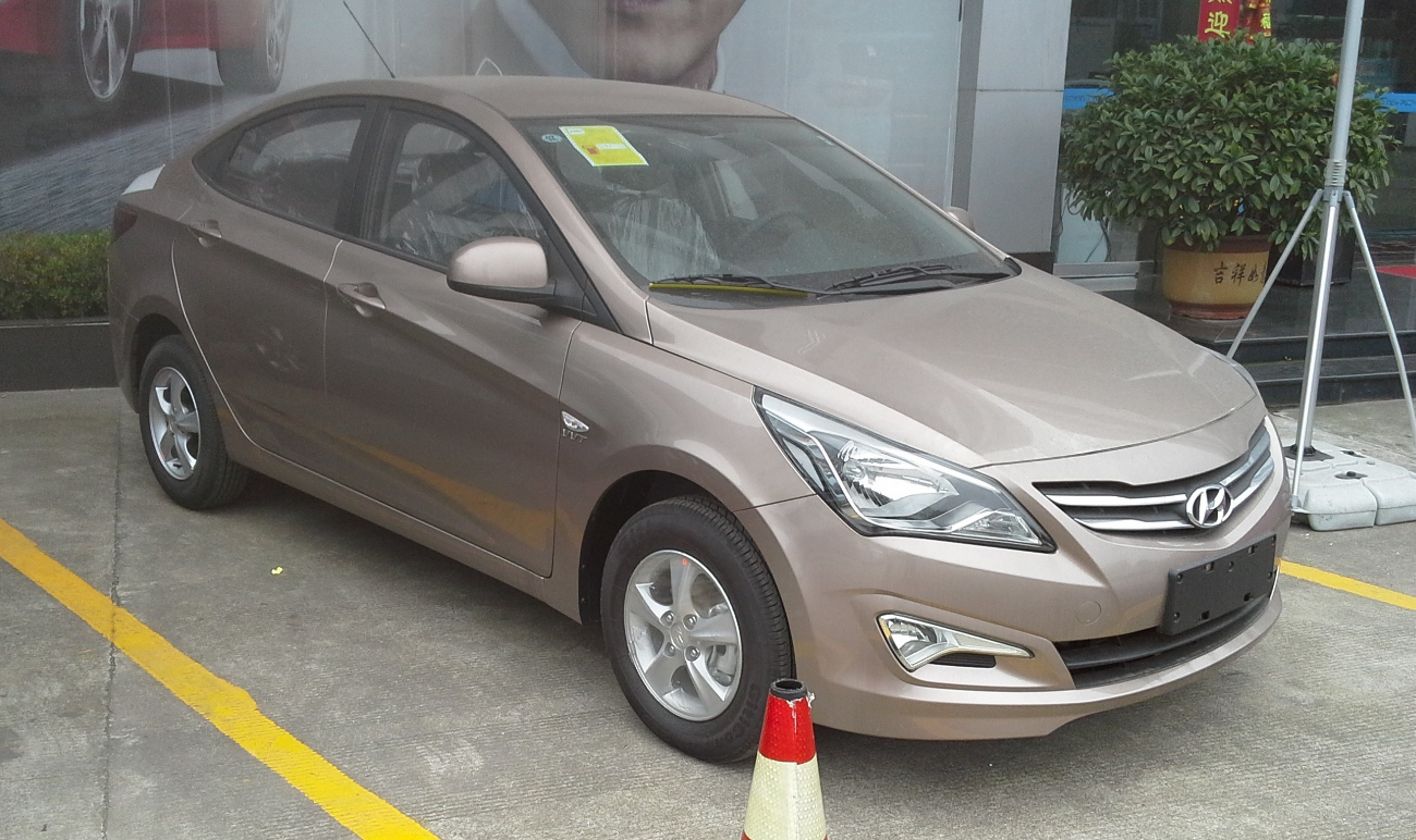 Hyundai Verna RC sedan facelift photographed in Liuzhou, Guangxi province, China.